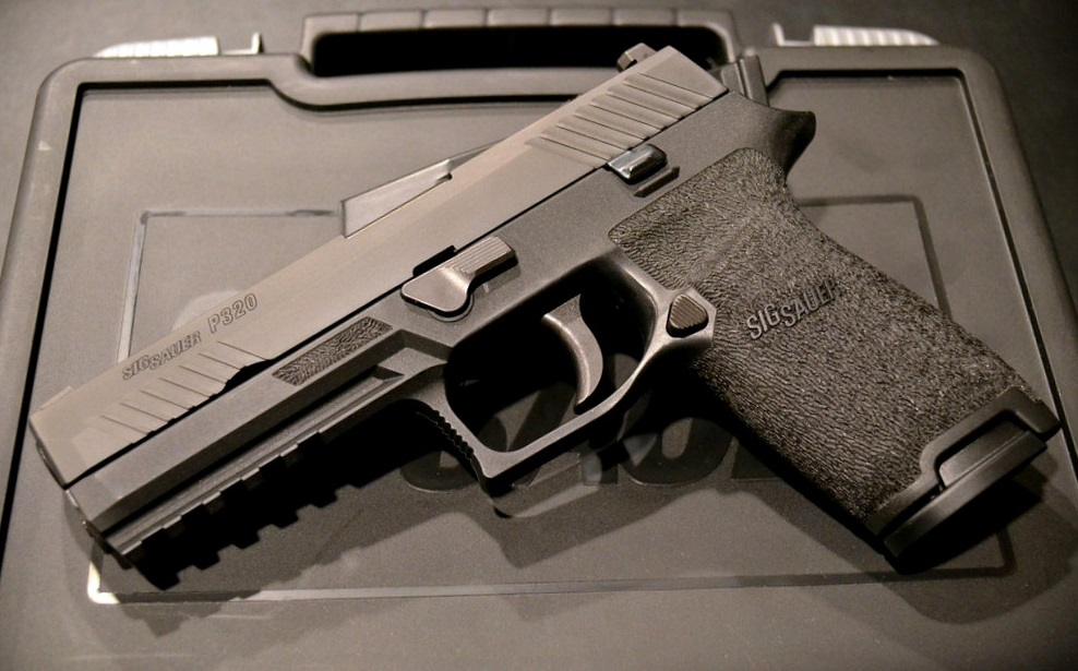 Sig Sauer P320 Full Size 9mm Pistol